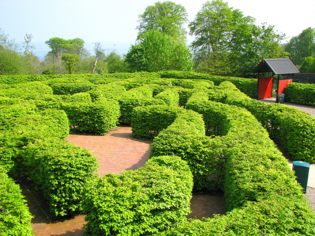 The 'Northern Ireland Maze', Carnfunnock Country Park The maze was created in 1986, the 'Northern Ireland' theme a result of a design competition. It is planted in 'carpinus betulus', a variety of hornbeam.